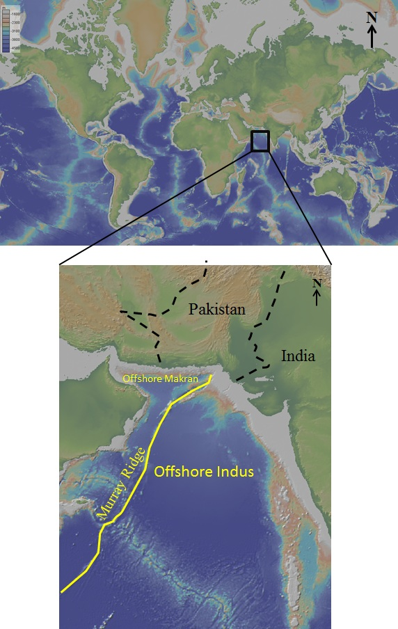 Author Samiha Naseem Satellite image from the software, geomapapp